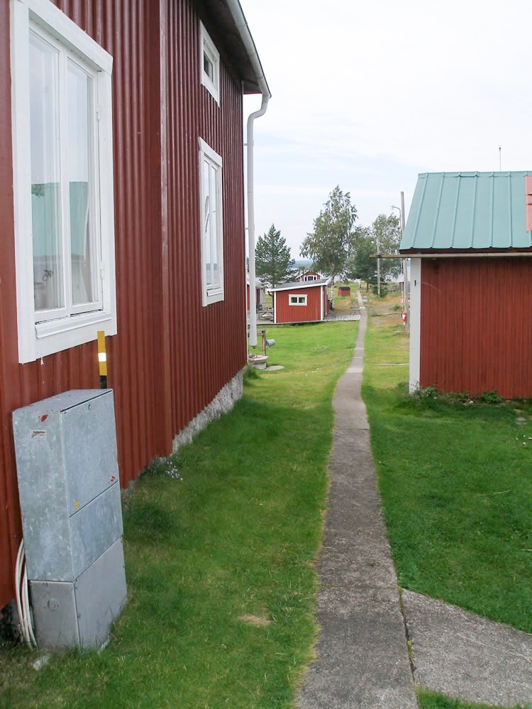 Pite-Rönnskär is a small island with a lighthouse in Bothnian Bay, Västerbotten, Sweden.